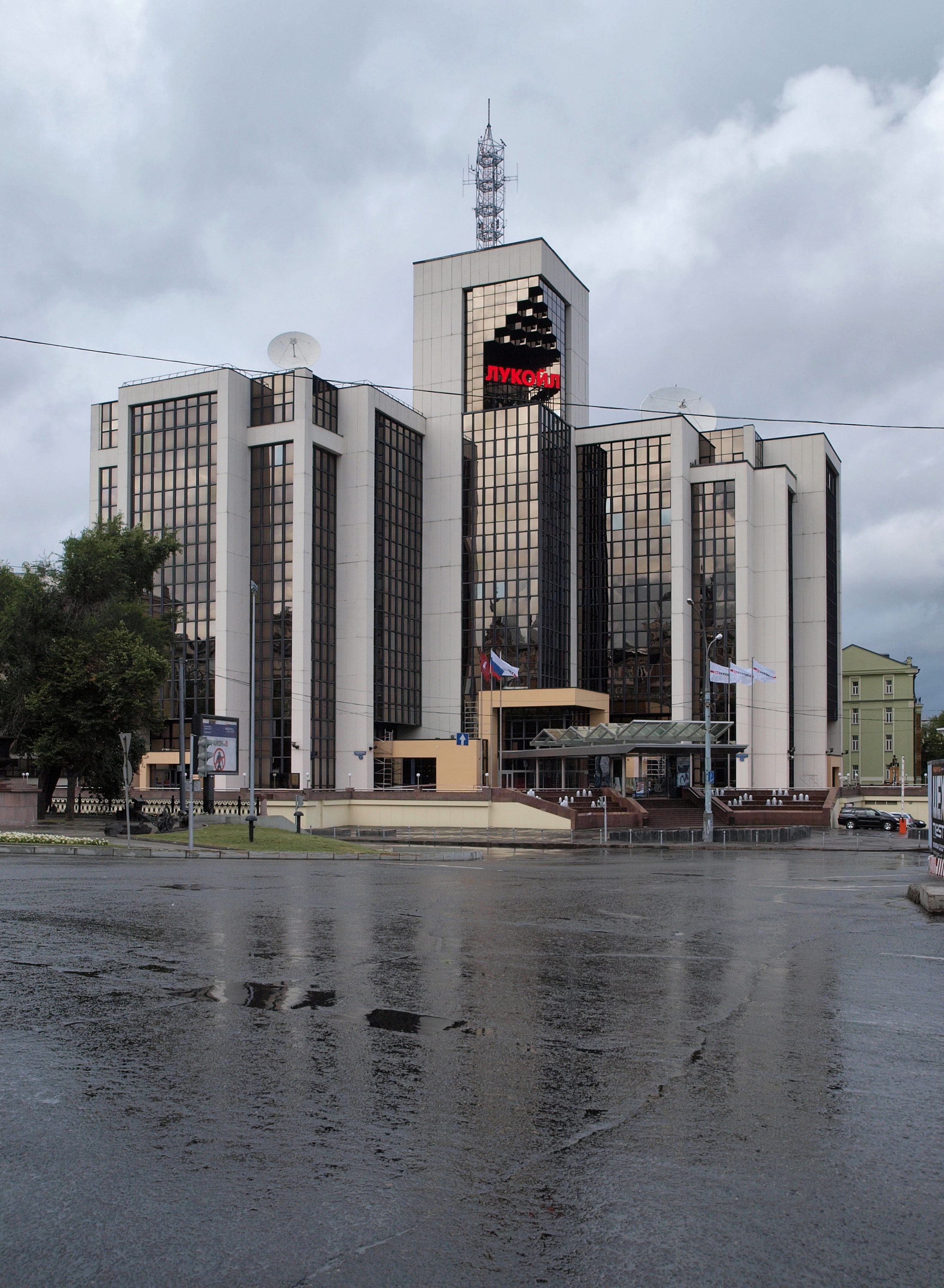 Beginning of Akademika Sakharova avenue, Moscow.